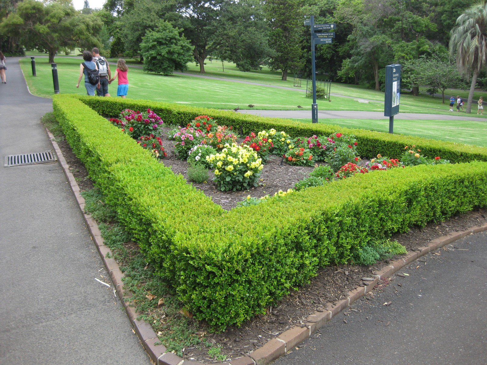 Photographed at the Royal Botanic Gardens Sydney (Australia) in January